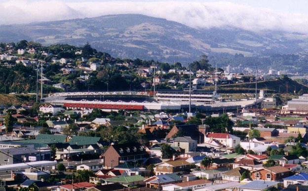 Carisbrook, Dunedin, New Zealand. Photograph taken by Grutness (James Dignan), March 2005. New Zealand Historic Places Trust Register number: 7782